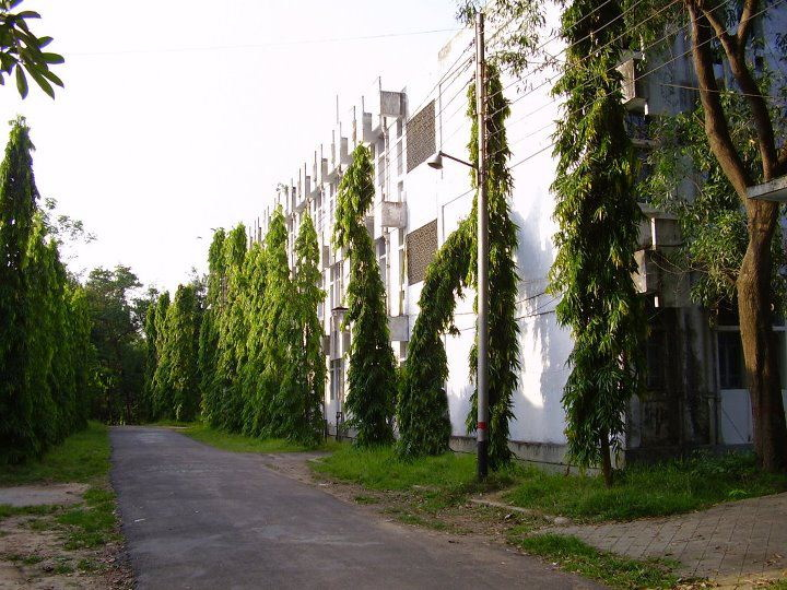 Electrical & Mechanical Engineering Building, Chittagong University of Engineering & Technology